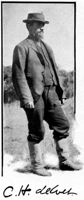 Christiaan De Wet - Project Gutenberg eText 16462